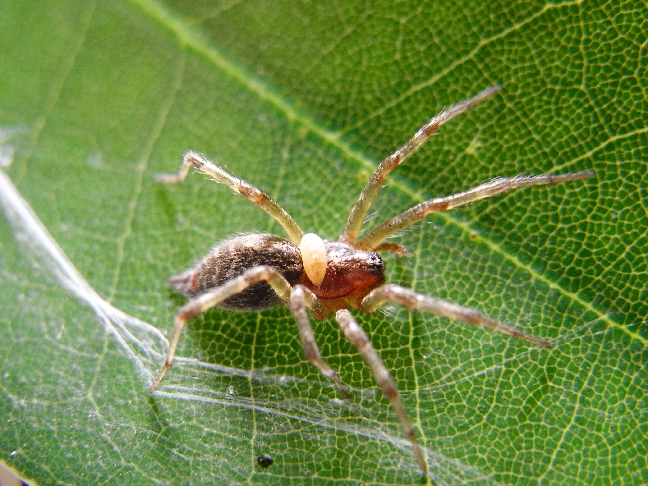 Figure 2 of the paper. Inset: spider Agelena sivatica